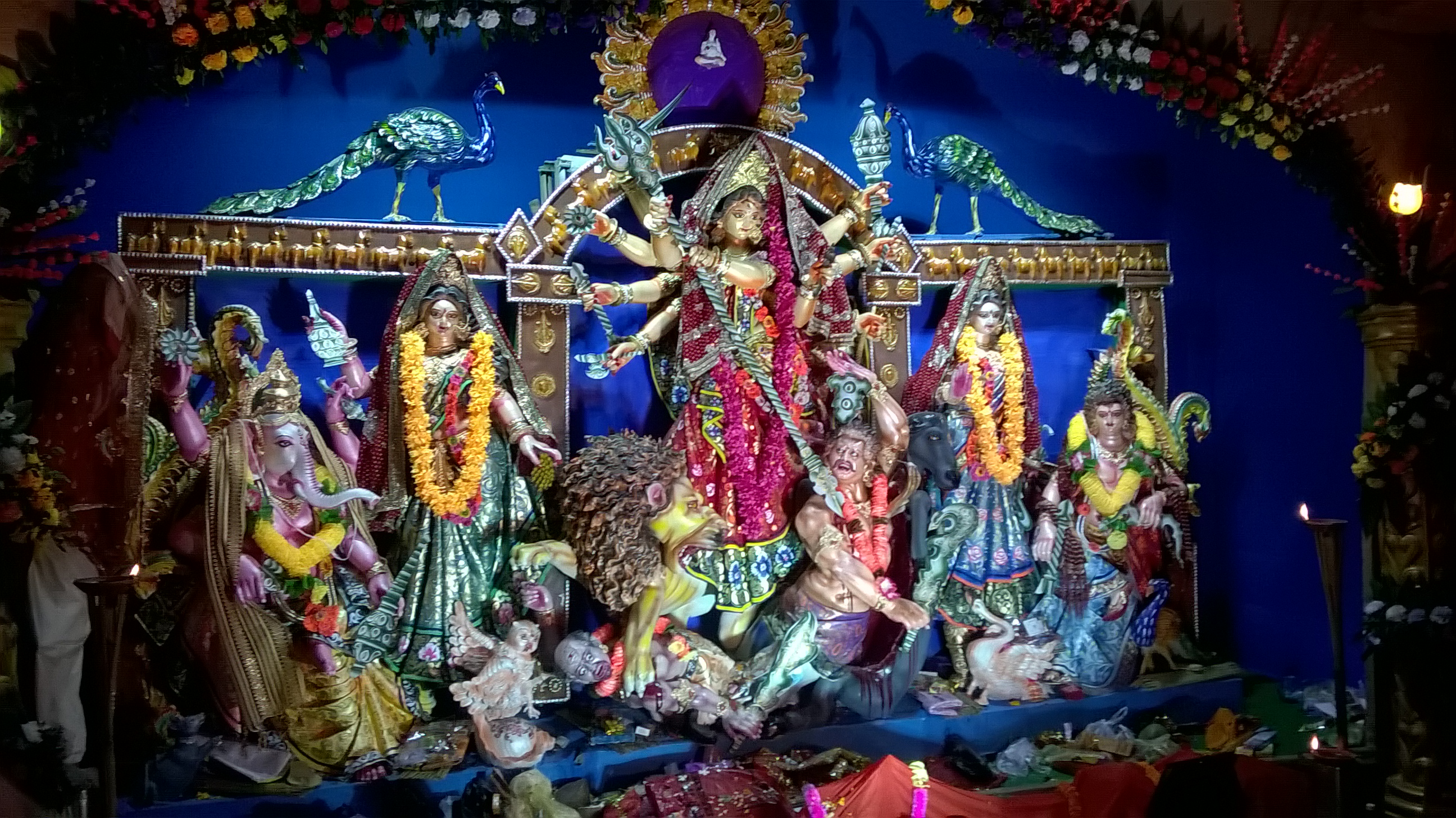 Durga Puja celebration in Jaigaon